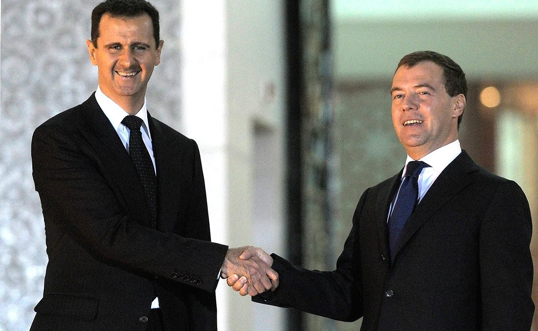 With President of Syria Bashar al-Assad.